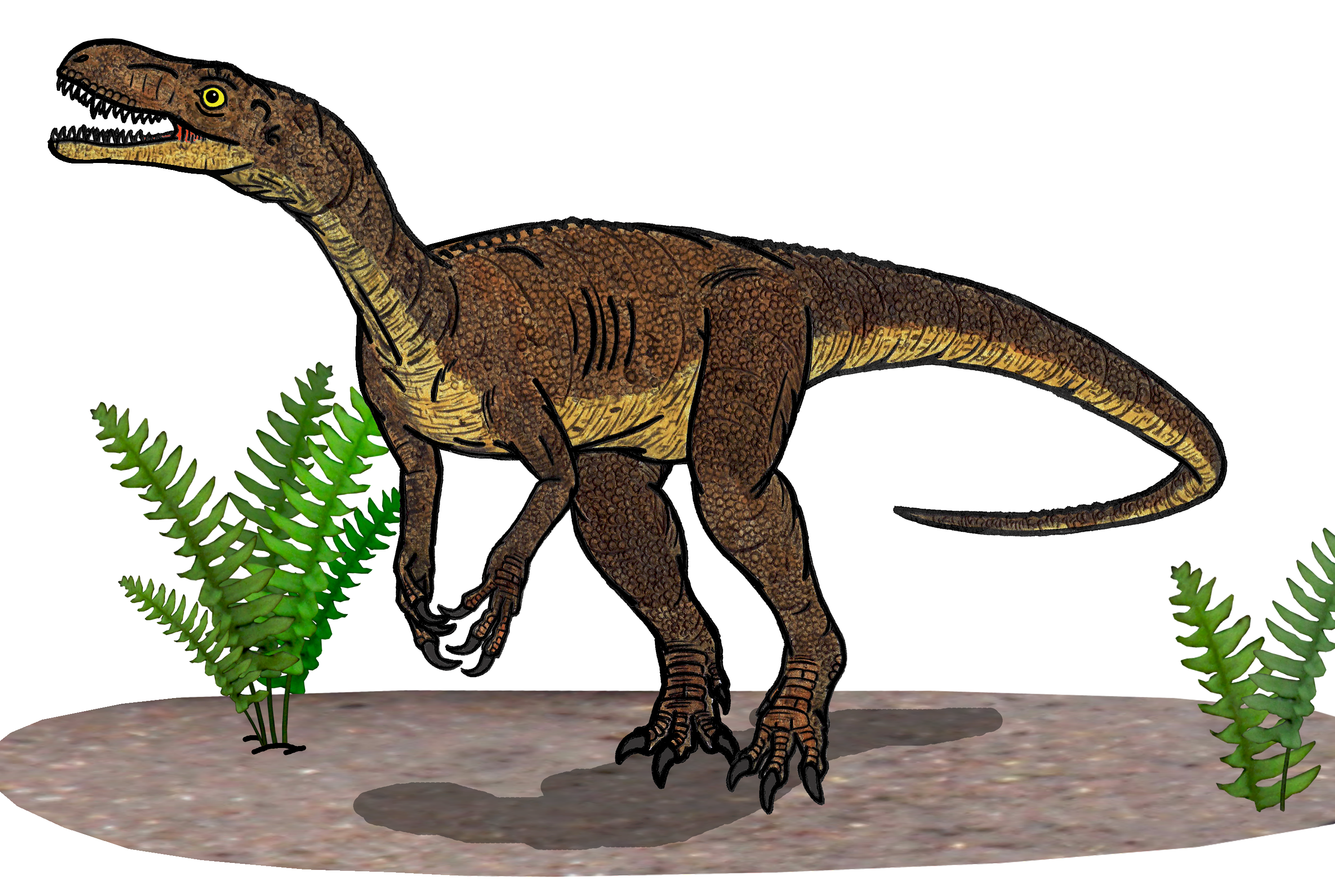 Drawing of the theropod dinosaur Eodromaeus murphi ("Dawn runner"), regarded as one of the oldest known theropods. Its remains has been found i South America. Based on these images: [1] and [2].